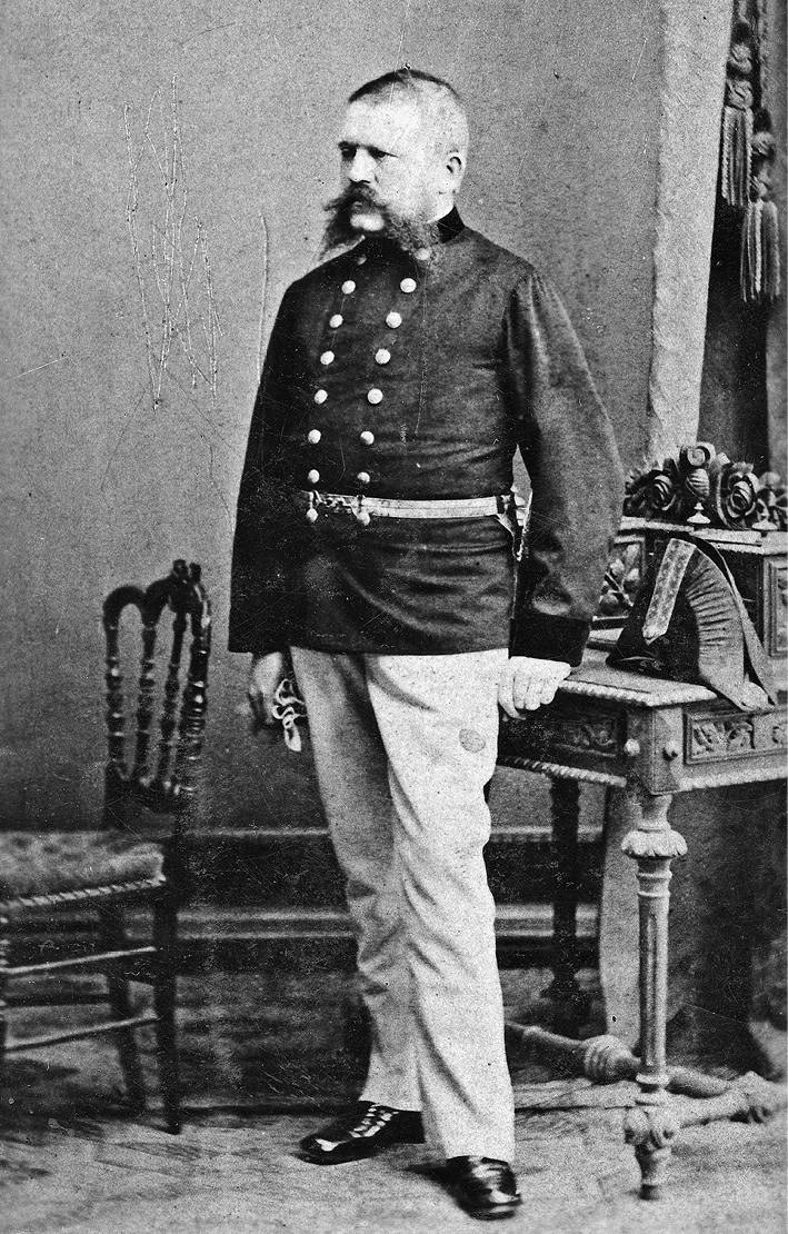 Alois Hitler né Schicklgruber (7 June 1837 – 3 January 1903), an Austrian civil servant and the father of Adolf Hitler.